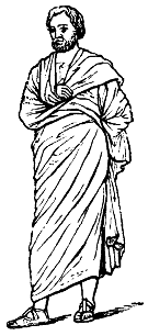 Aristides wearing a himation over a chitona, after a relief